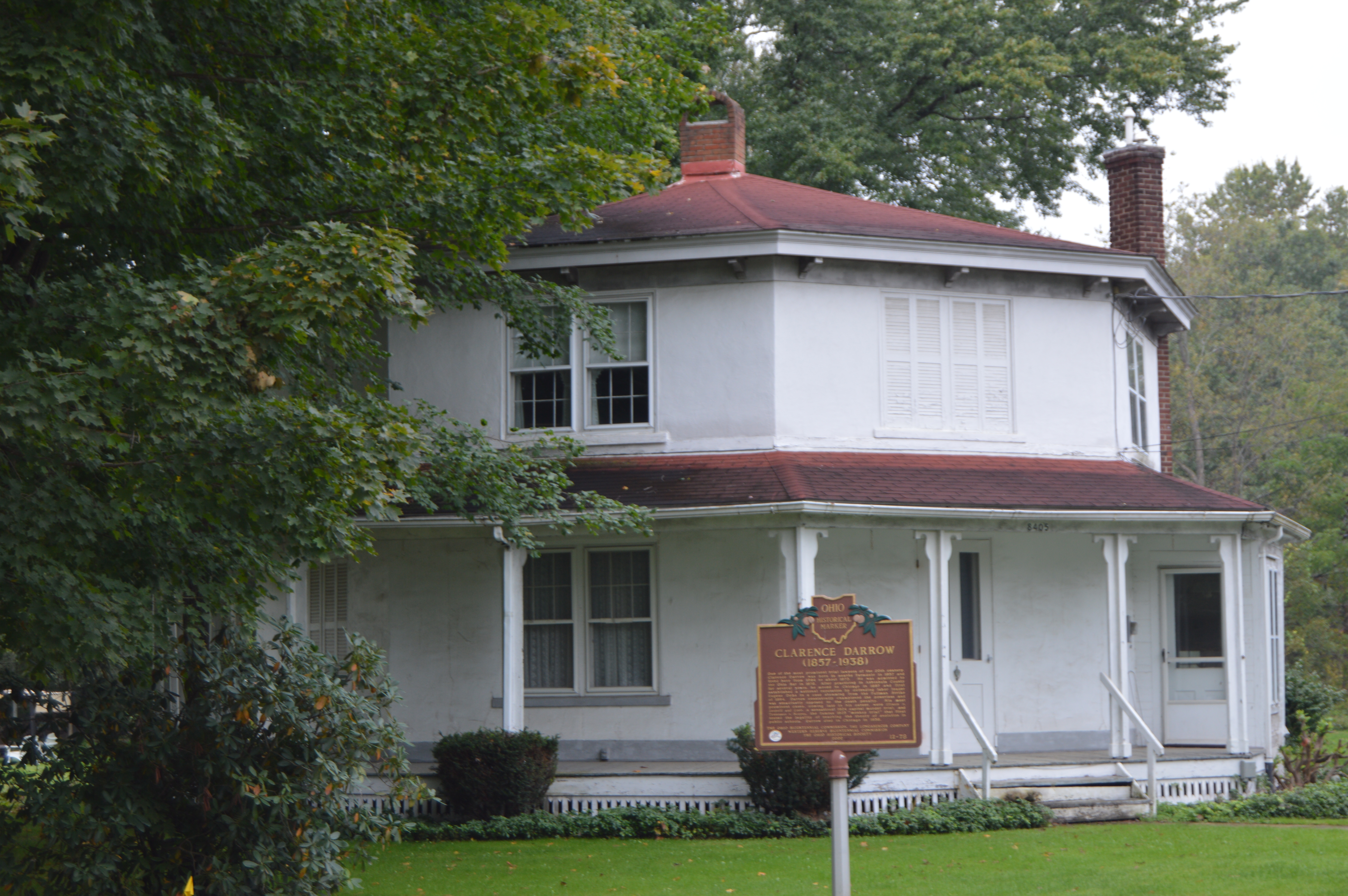 View from the east of the Clarence Darrow Octagon House, located on the western side of the combined State Routes 5/7 in Kinsman, Ohio, United States. Built in 1854, it is listed on the National Register of Historic Places.